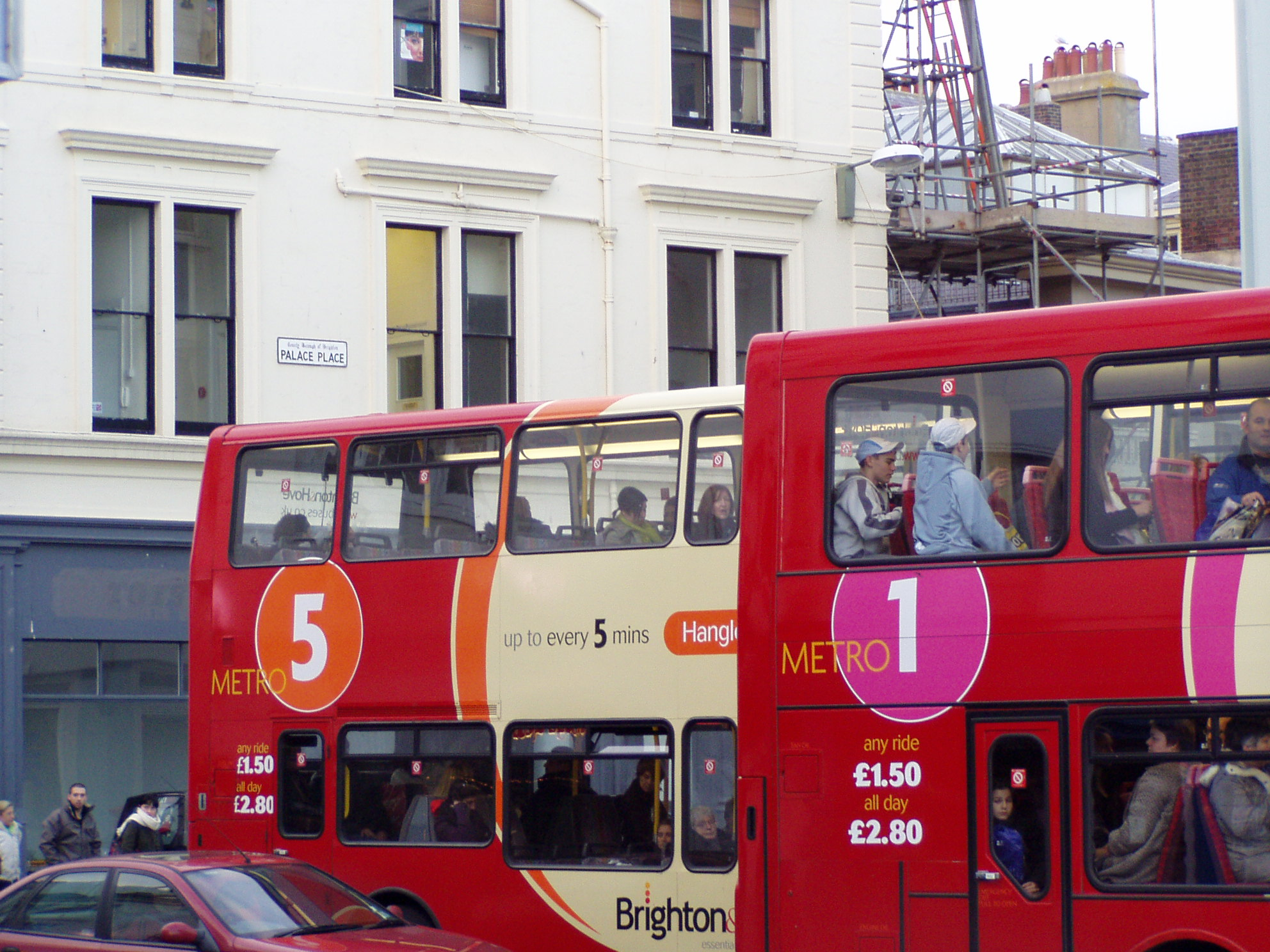 The back of two Brighton & Hove buses in Brighton. On the left is a Dennis Trident/Plaxton President, branded for route 5, on the left is a Scania OmniDekka, branded for route 1.